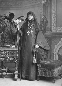 Nino, born Princess Anna Amilakvari (1815-1904), was an abbess (ihumenia) of Samtavro convent from 1865 to 1904